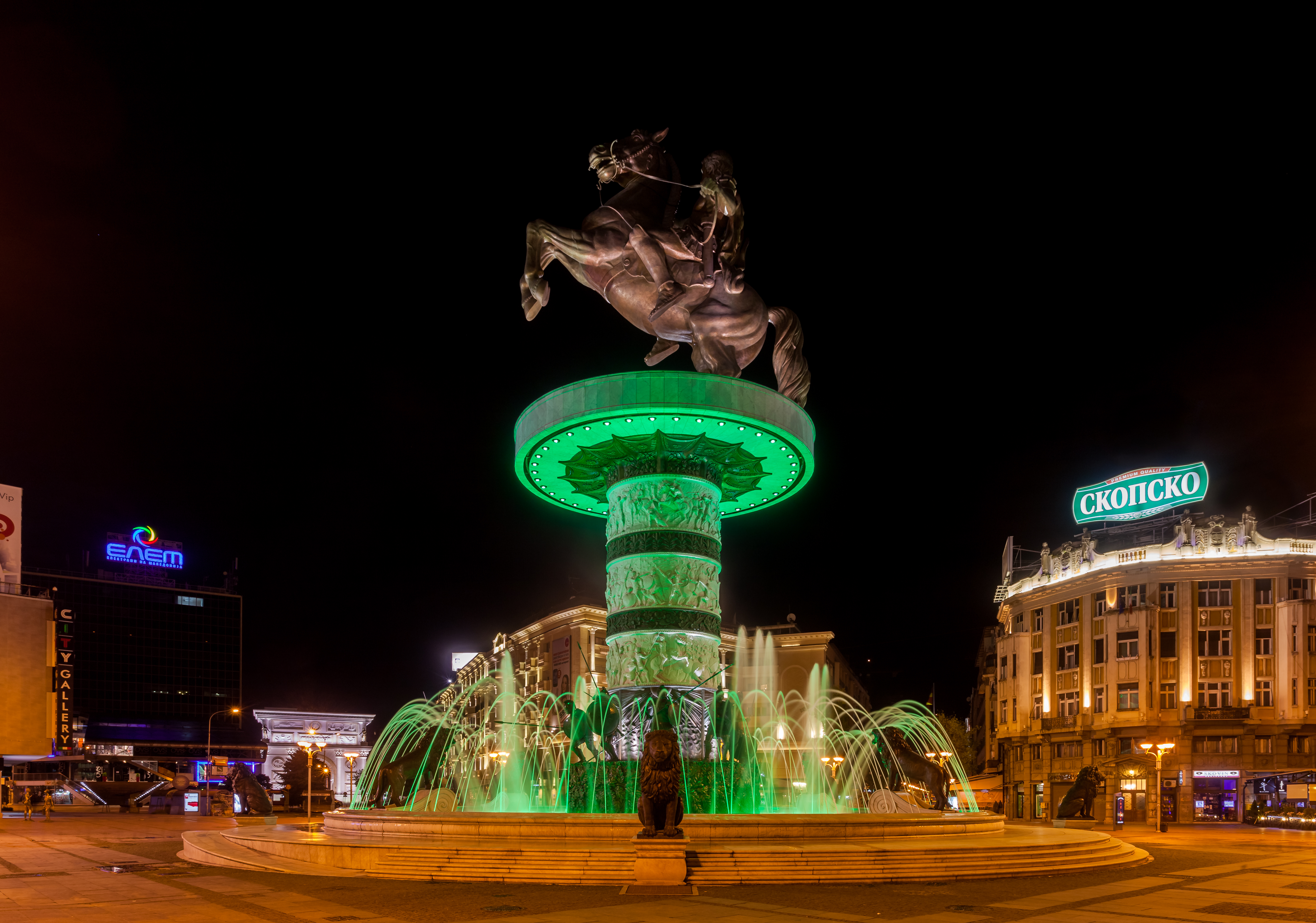 Warrior on Horseback, Skopje, Macedonia